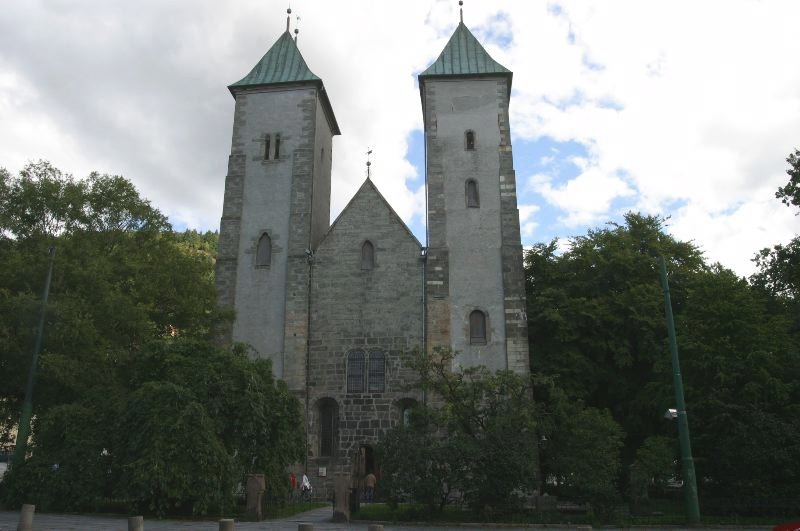 Church of St. Mary in Bergen